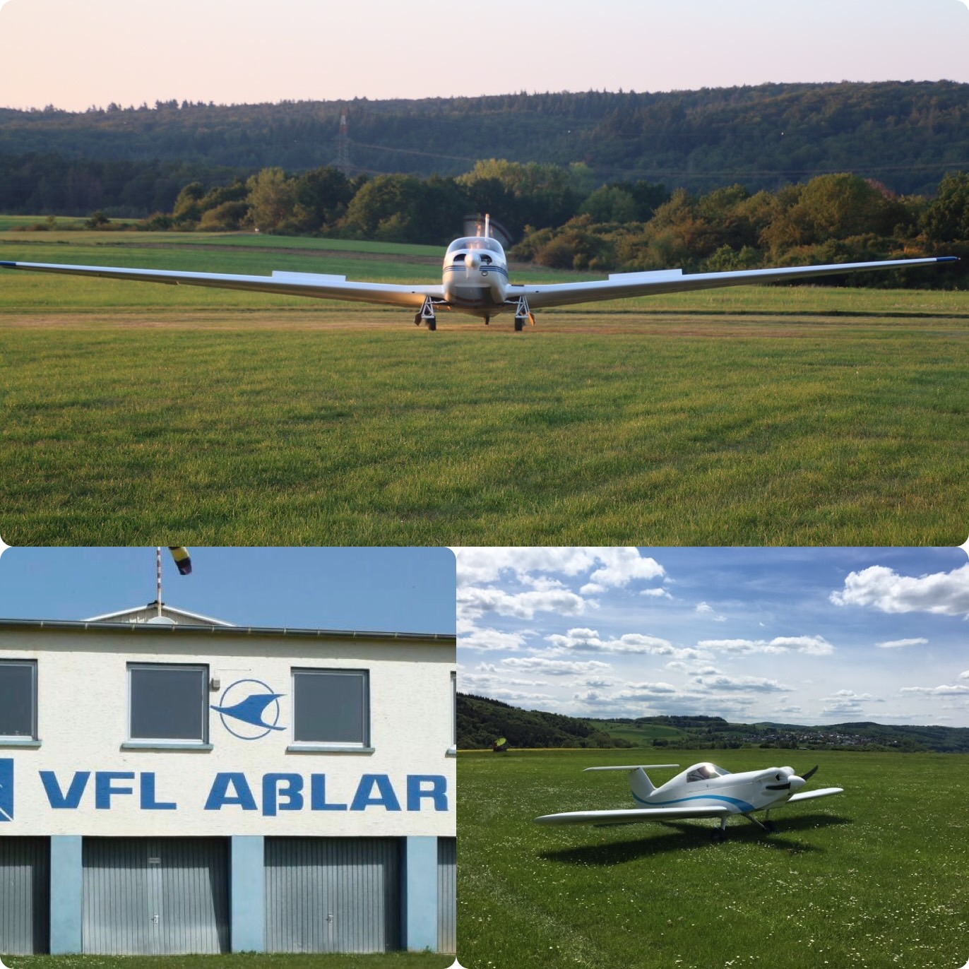 Flight club VFL Asslar. View of the workshop and garages. Motor glider and SD1 ultralight 120 kg class